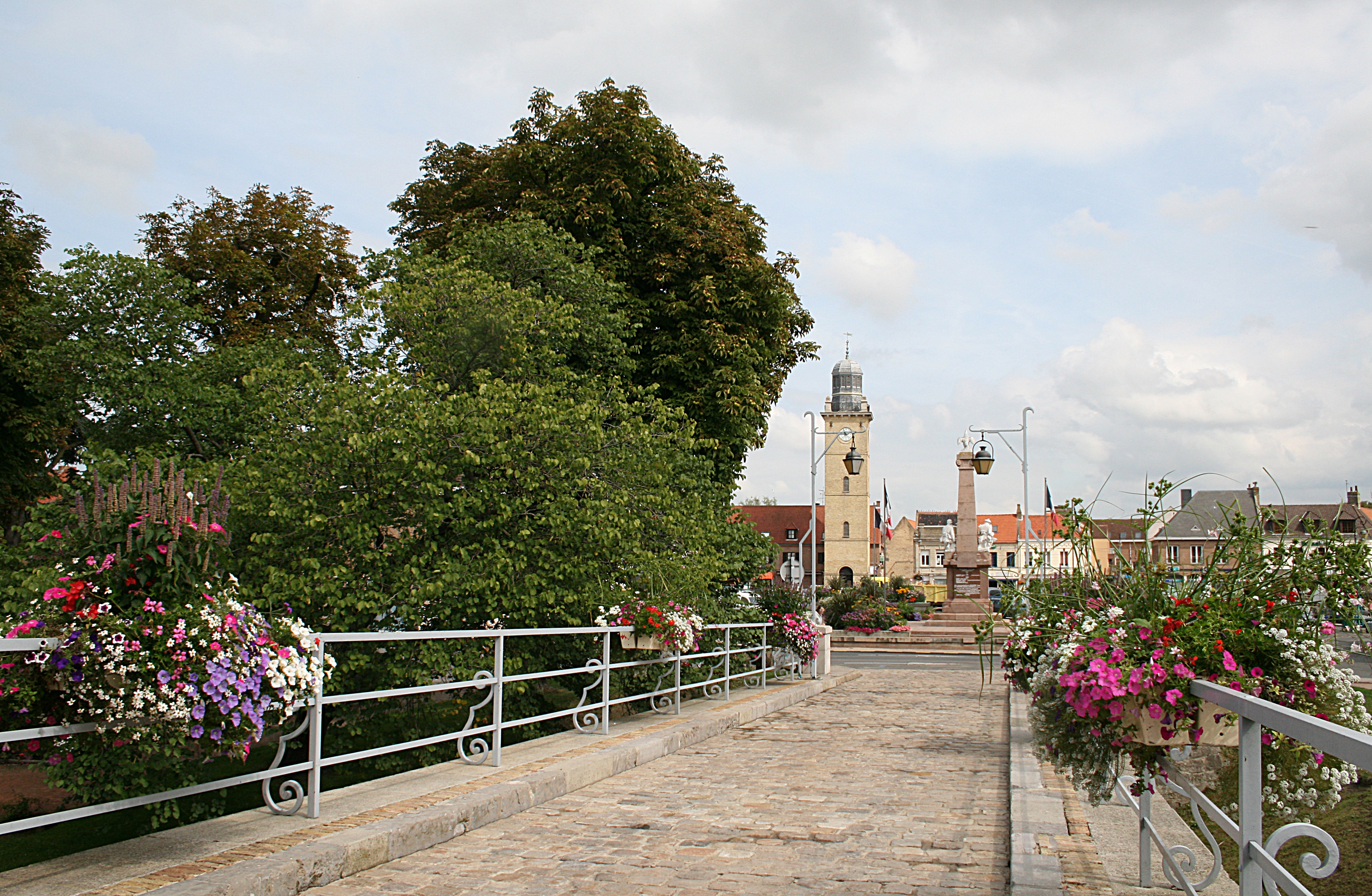 Gravelines (Nord) France, porte de l'Arsenal bridge and place Charles Valentin.